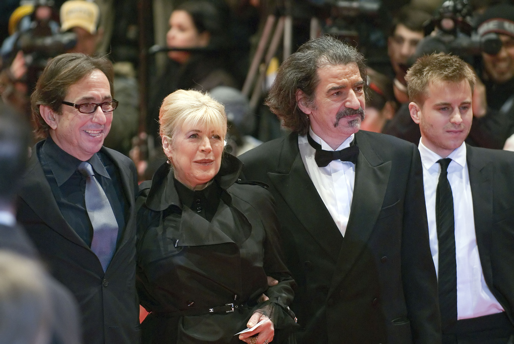 From left to right, Sam Garbarski, Marianne Faithfull, Miki Manojlović and Kevin Bishop at the premiere of Irina Palm, at the 2007 Berlin International Film Festival.